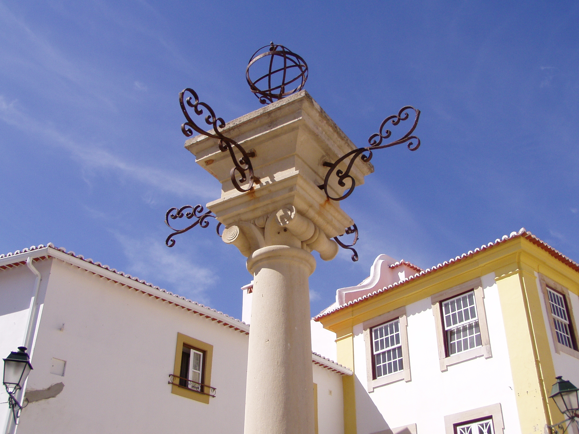 Pelourinho: a place where justice was exacted in medieval times, which served also as a monument to the town's autonomy. Constância, Portugal.